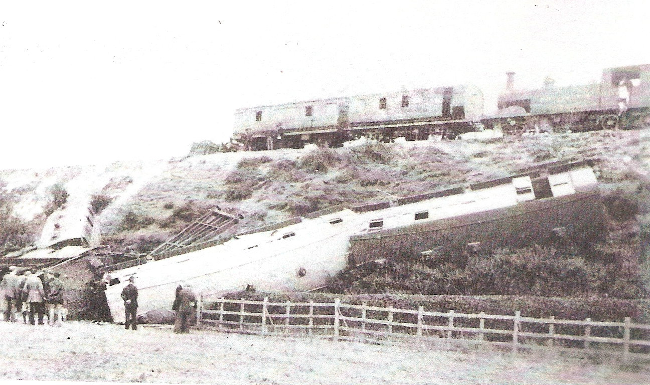 Image is of an accident on the Cuckoo Line, which took place in 1897. One of only two known images of the accident. Photo taken from A.C Elliott/Wild Swan Publications book 'The Cuckoo Line', ISBN 0906867630 Cropped caption: The remainder of the train went over to the other side of the embankment. The underframe of the second coach is clearly visible. Class No. 381 Fittleworth heads the inspection train.